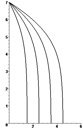 Quasi Parabolic Free Fall for four diferent values of horizontal speed